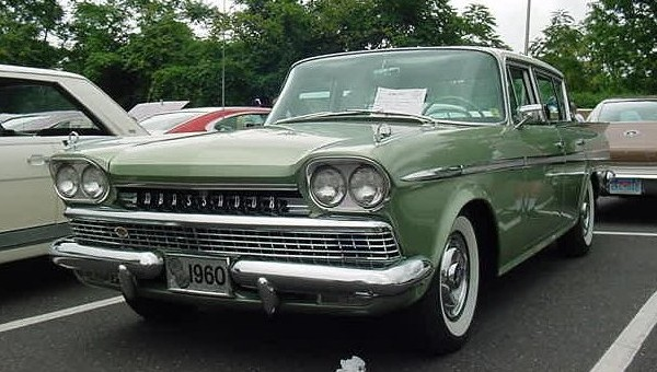 1960 Rambler Ambassador, four-door sedan, built by American Motors Corporation (AMC) and finished in green. Picture taken at the 2003 AMCRC car show that was held in Somerset, New Jersey.